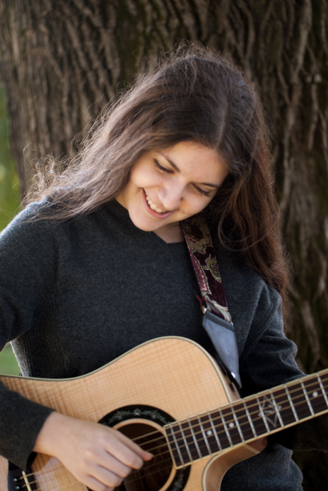 Lily Mae performing